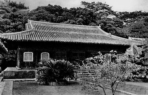 Sogen-ji Seibyo (This was burned in World War II)